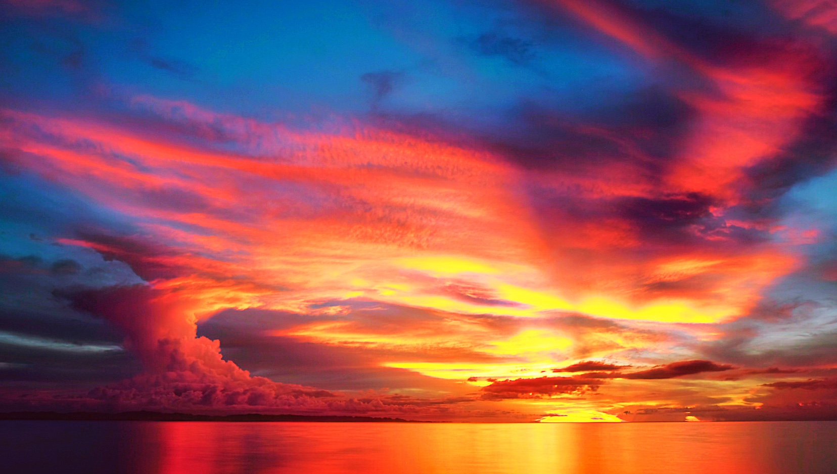 Shot in Sabang Beach in Bulan, Sorsogon facing Ticao Pass